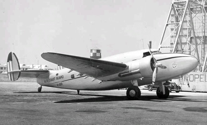 A U.S. Coast Guard Lockheed R5O-1 Lodestar (serial V-188), which was delivered on 14 May 1940 and used as an executive transport aircraft.